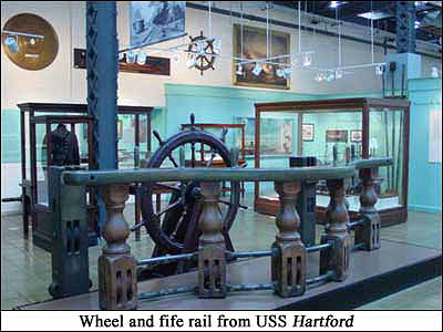 Artifacts of the Civil War era USS Hartford - from at the Naval Historical Center